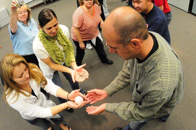 From right clockwise, Master Sgt. Shane Amundson, Senior Airman Heather Mattson, both of the 119th Wing, and Staff Sgt. Kristel Amundson, of the 191st Military Police Company, pass a ball during a teambuilding exercise Sept. 22, at the Armed Forces Reserve Center, Fargo, N.D. The North Dakota Guardsmen are among 30 North Dakota National Guard leaders who have been selected to participate in a Diversity Champions course.